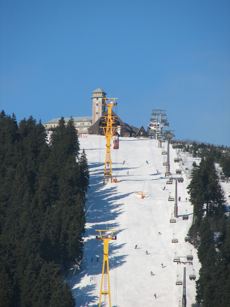 Cable railway on Fichtelberg